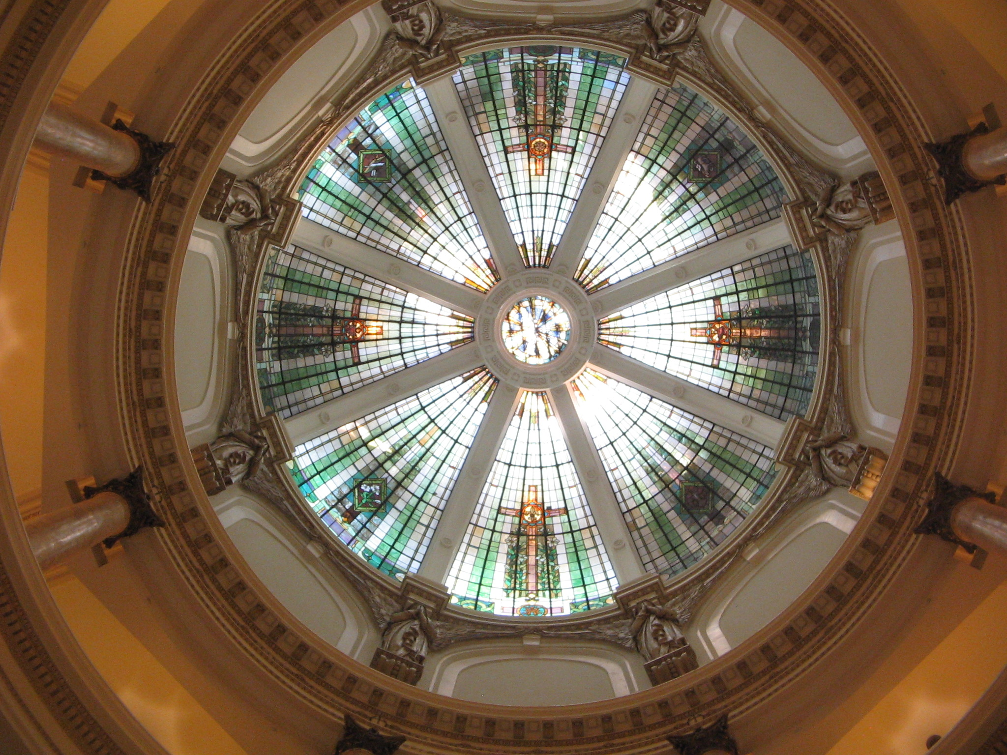 Rotunda in Villa Maria Hall at Immaculata University in Chester County, Pennsylvania, USA